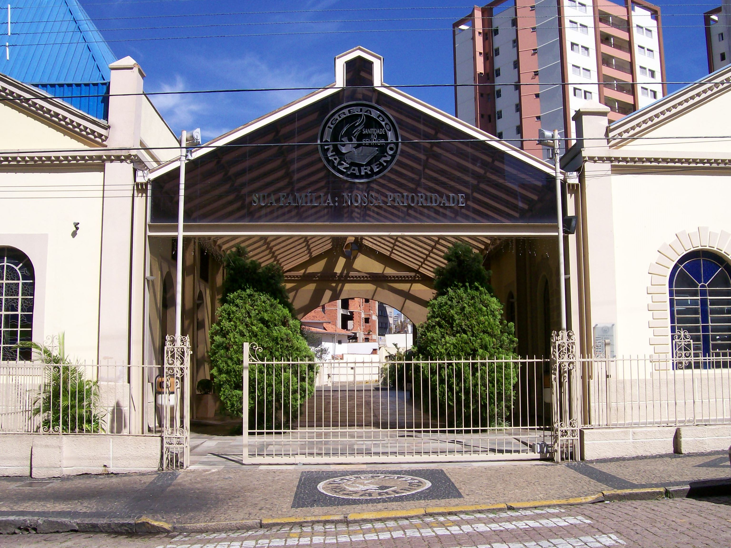 Church of the Nazarene's entrance, where it can be read in